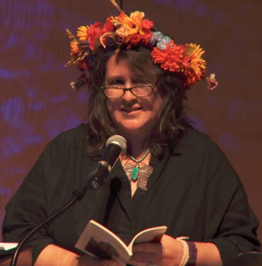 Inaugural address, poetry, and hats. Kim Shuck was named Poet Laureate of San Francisco by Mayor Ed Lee on June 21, 2017.